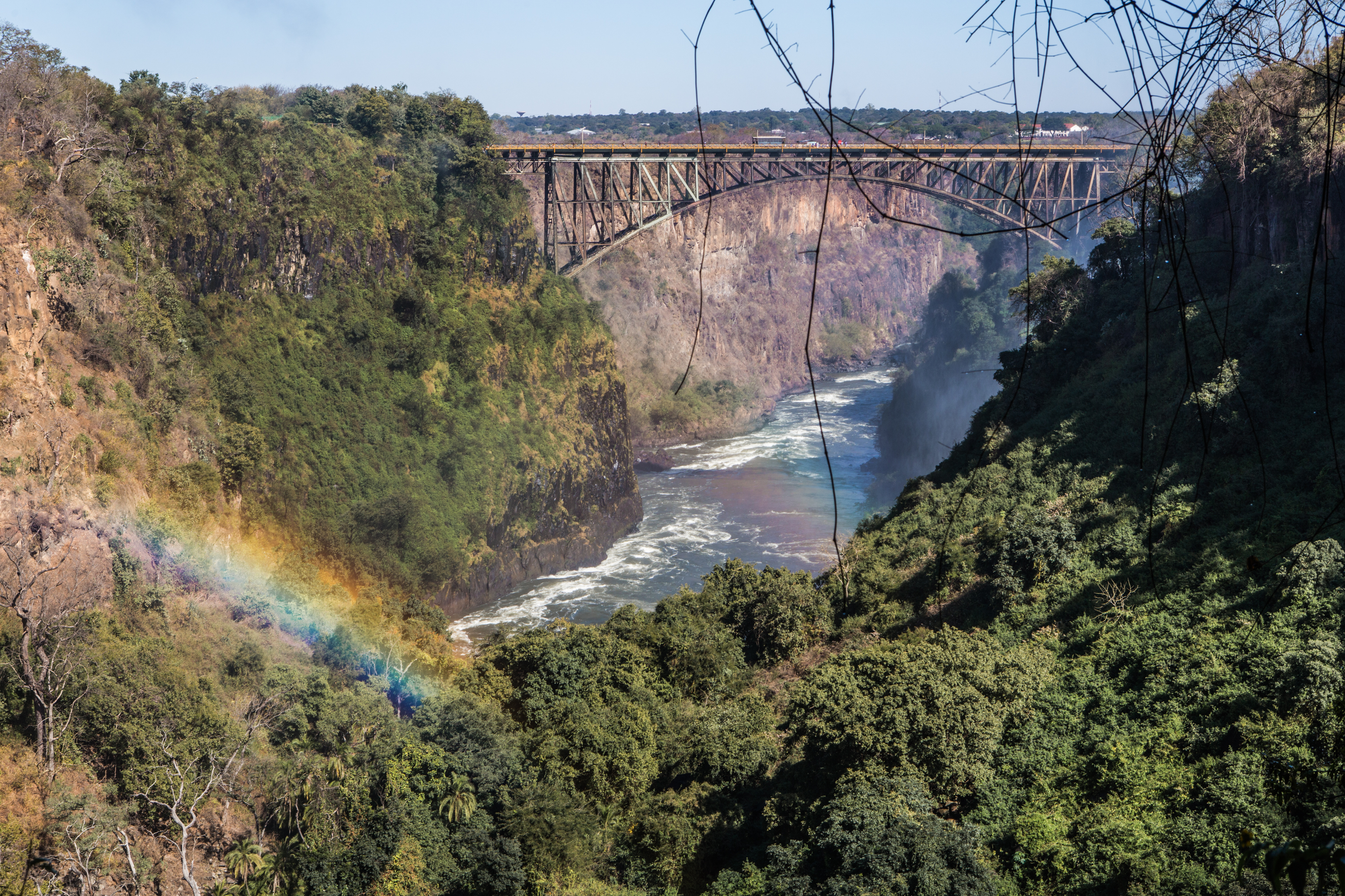 Victoria Falls bridge at the border of Zambia and Zimbabwe